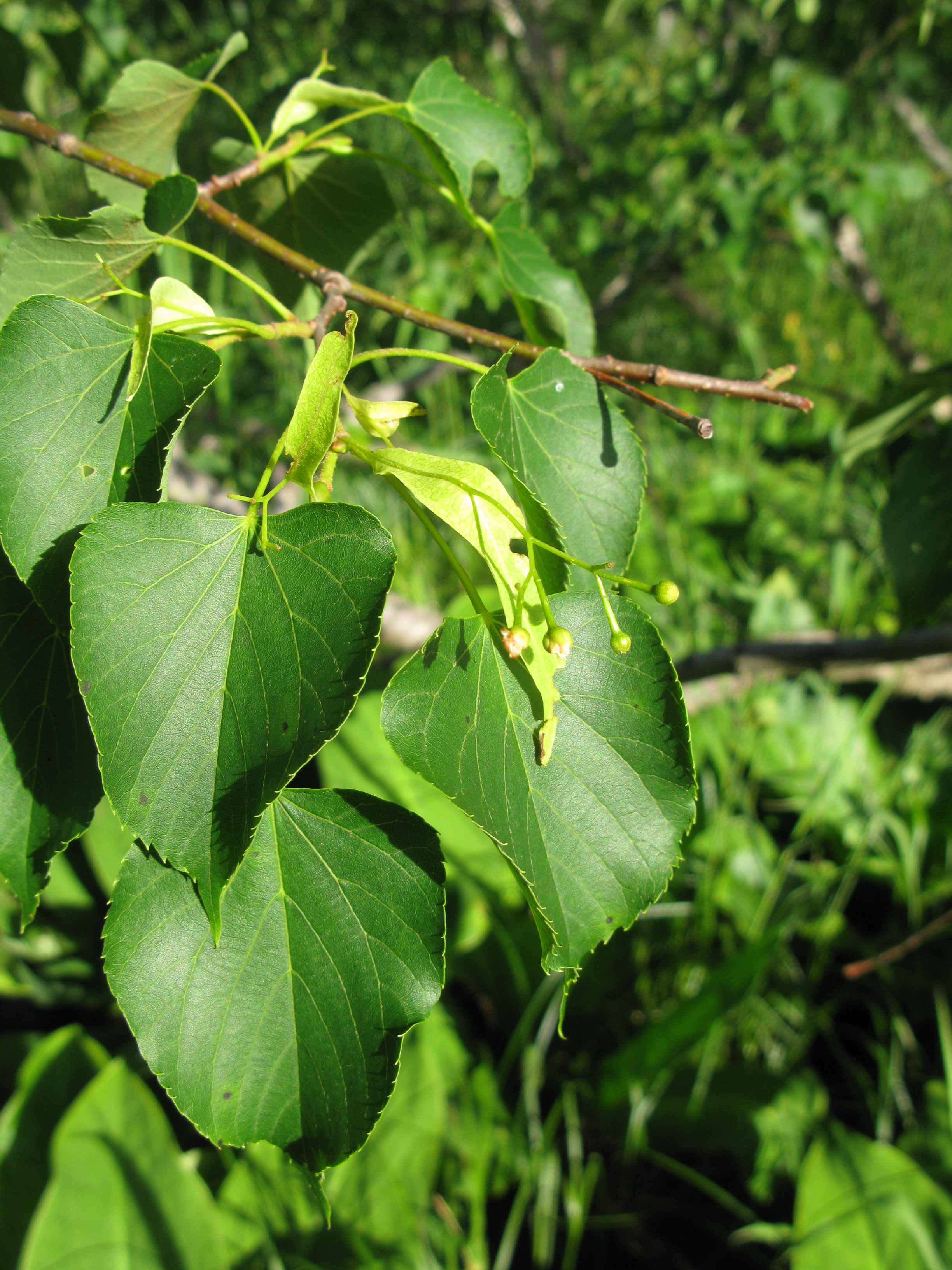 Tilia japonica, Oze, Gunma pref., Japan